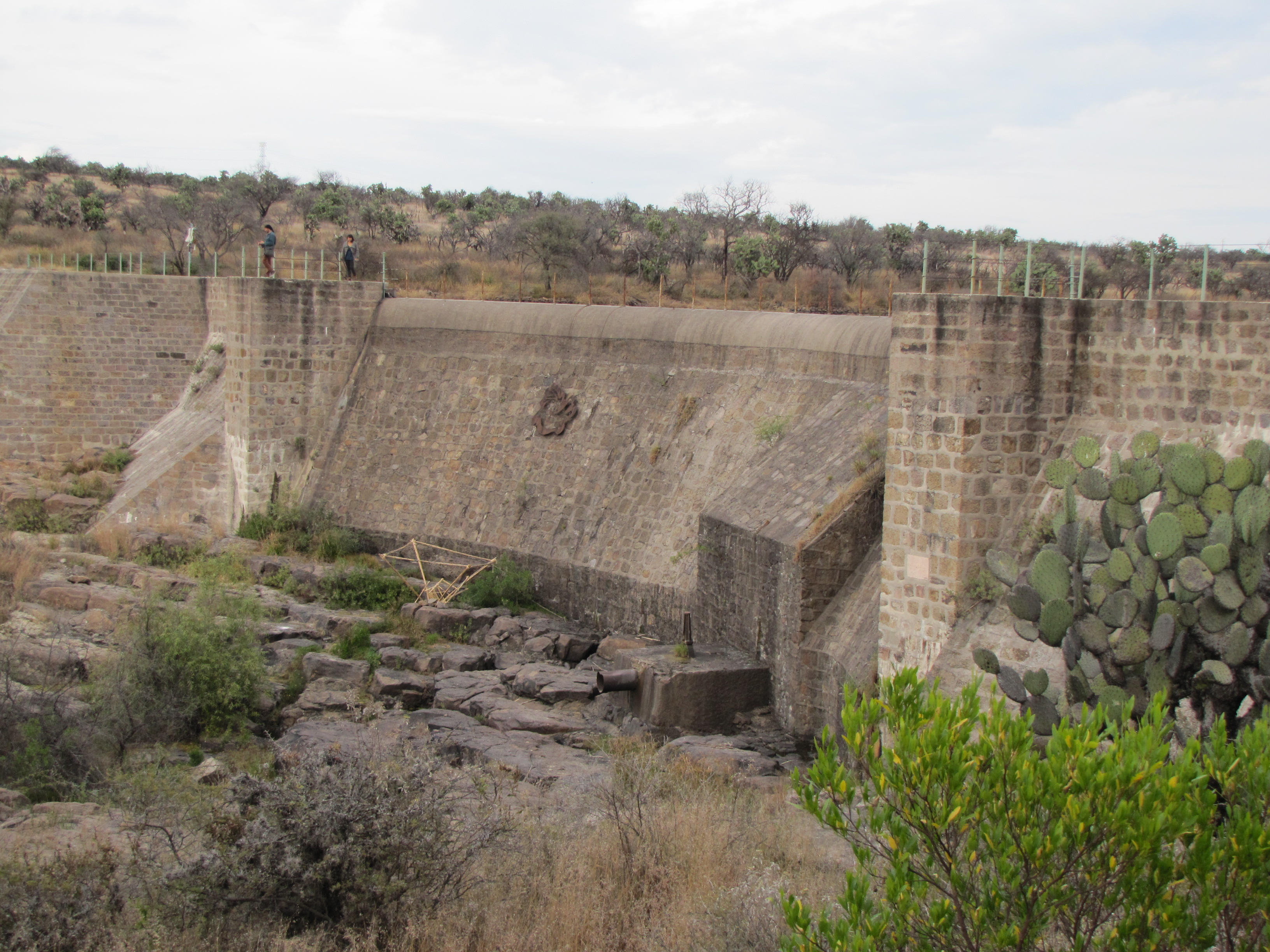 Dike at Presa Las Colonias, El Charco del Ingenio botanic garden, San Miguel de Allende Guanajuato, Mexico.